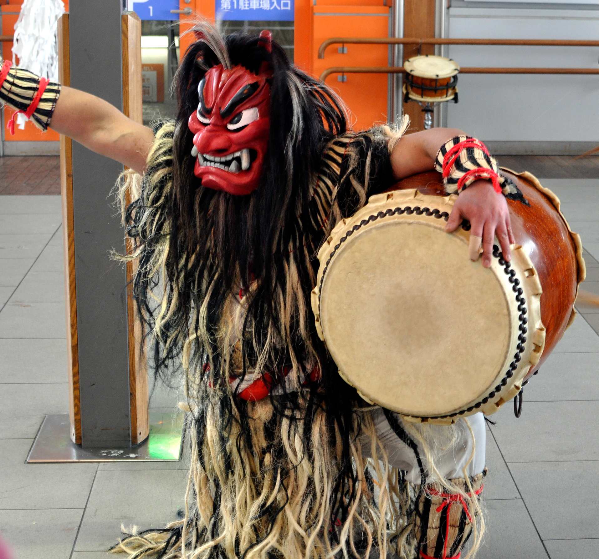 Namahage-Daiko, the dancing drummers wearing Namahage costumes were performed in Akita Station on Jan. 1st 2010.